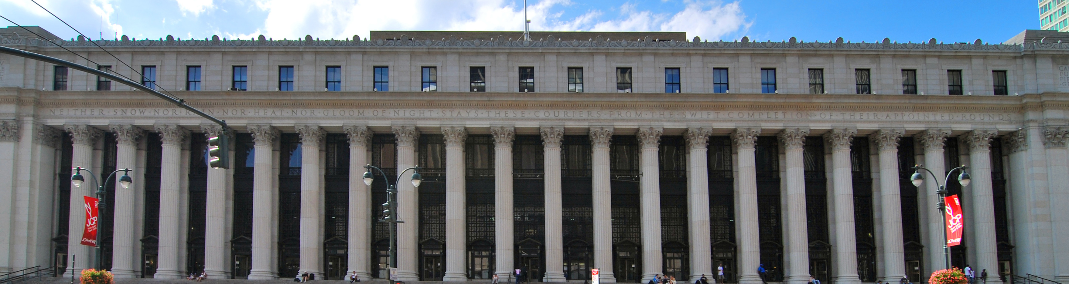 Close up of James Farley Post Office, Manhattan, New York City to show inscription: Neither snow nor rain nor heat nor gloom of night stays these couriers from the swift completion of their appointed rounds